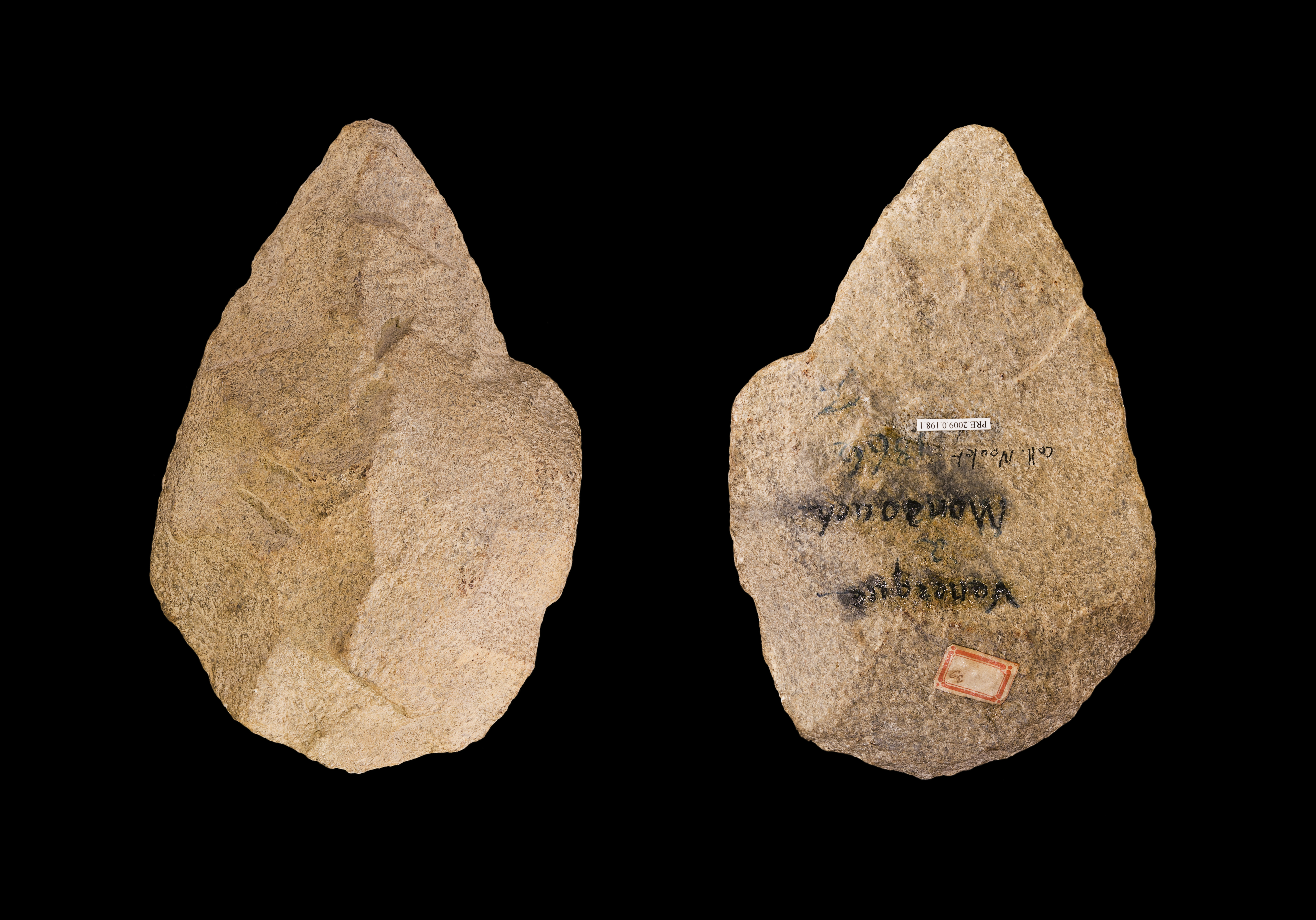 Quartzite Biface Stage : Lower Paleolithic (to - 1 Ma from - 300 000 years Before the Current Era) Locality : Venerque, Haute-Garonne, France Former collection of Jean Baptiste Noulet (1802 - 1890) Different views of the same specimen - Muséum of Toulouse MHNT.PRE.2009.0.198.1 Size : 14.7x9.5x4 cm – 493g